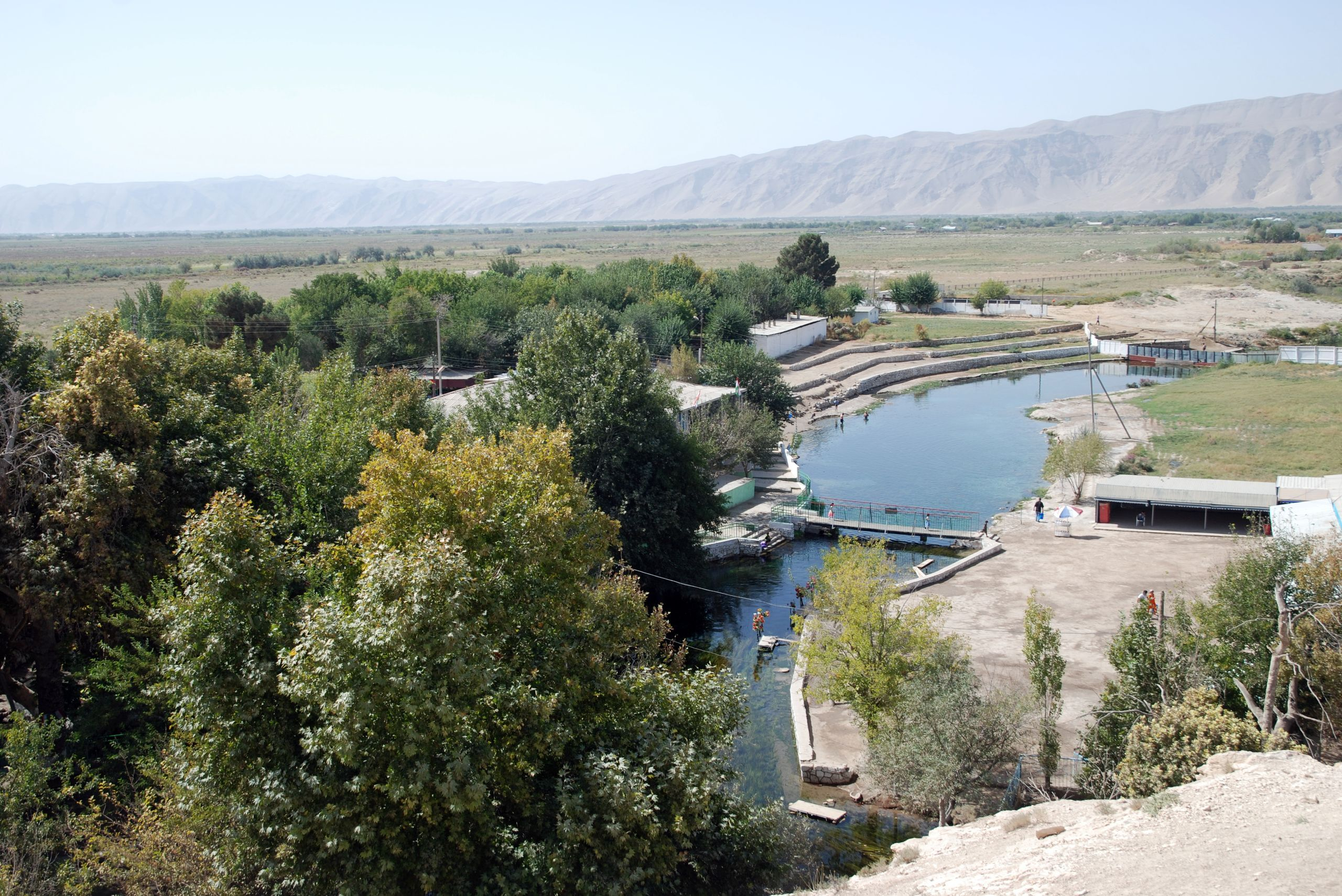 Chilu-Chor chashma, 8 km west of Shahrituz